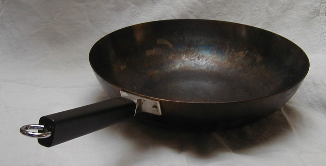 My own photo, to be added to wiki entry for Wok and maybe others.